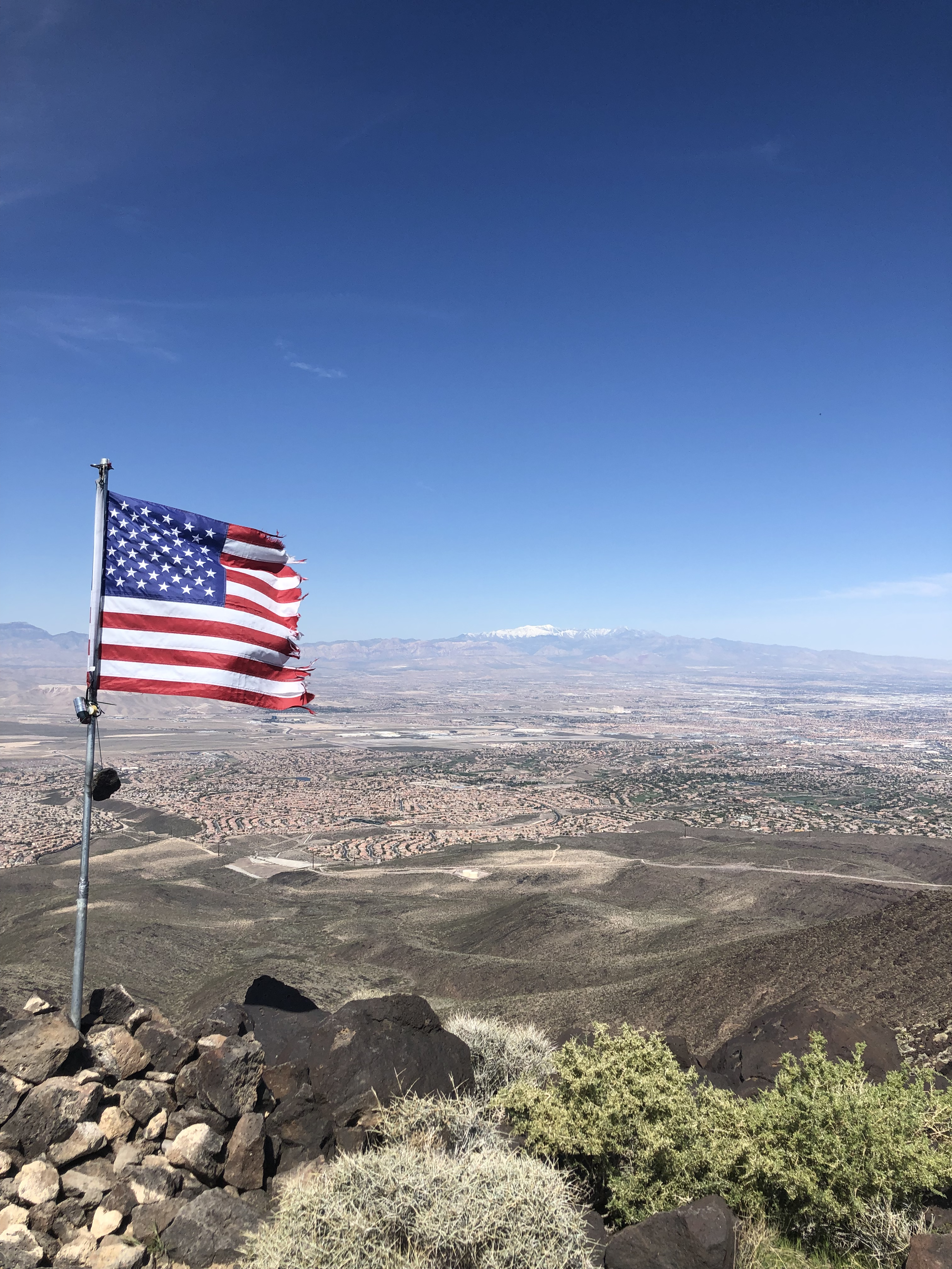 View from the summit of Black Top Mountain